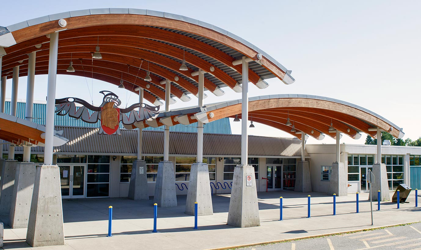 School front entrance sentinel secondary